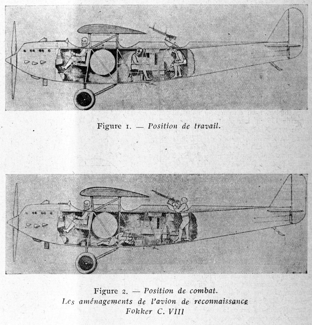 Fokker C.VIII crew positions drawings from L'Air October 1,1928